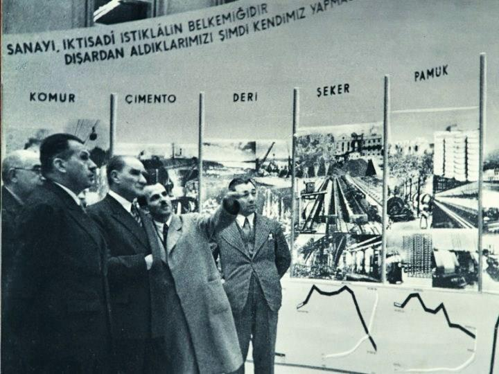 Kemal Atatürk (or alternatively written as Kamâl Atatürk, Mustafa Kemal Pasha until 1934, commonly referred to as Mustafa Kemal Atatürk; 1881 – 10 November 1938) was a Turkish field marshal, revolutionary statesman, author, and the founding father of the Republic of Turkey, serving as its first President from 1923 until his death in 1938. He undertook sweeping progressive reforms, which modernized Turkey into a secular, industrial nation. Ideologically a secularist and nationalist, his policies and theories became known as Kemalism. Due to his military and political accomplishments, Atatürk is regarded as one of the most important political leaders of the 20th century.